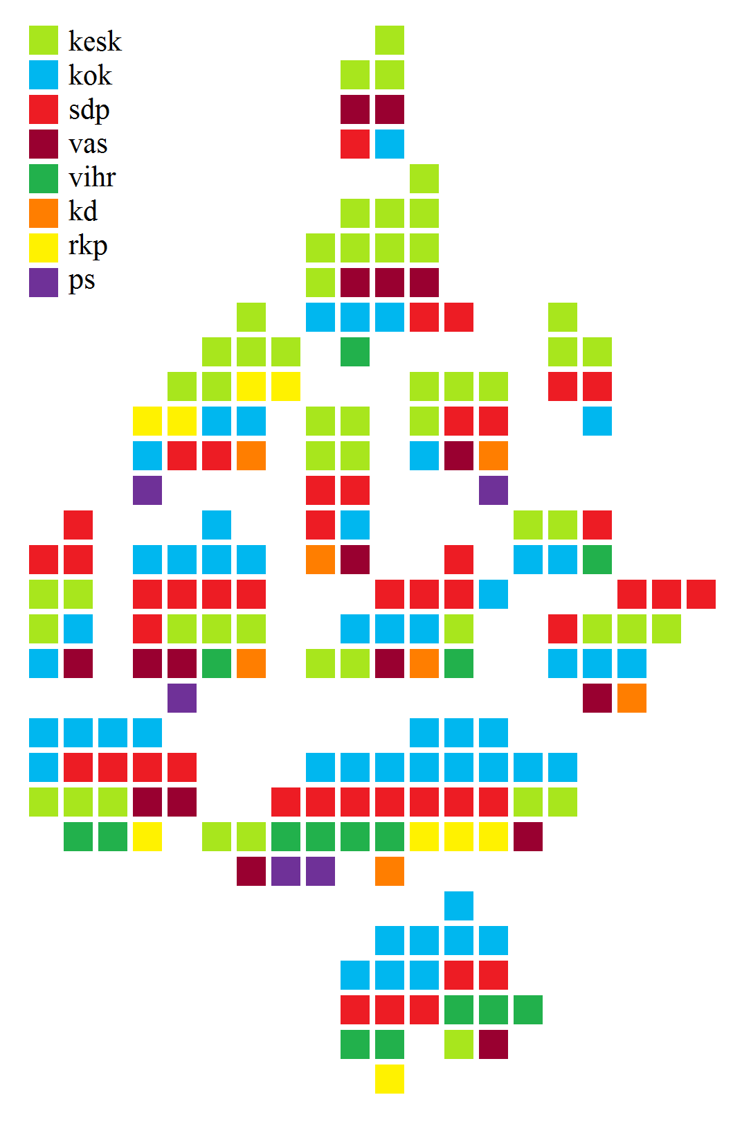 Finnish parliamentary election result with constituencies weighted with the number of seats